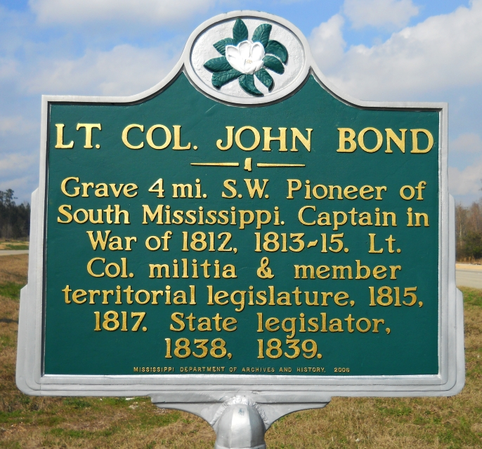 Historical Marker for Lt. Col. John Bond, Jr., located in McHenry, Mississippi, USA.